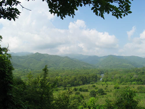 Valley of the Rio Calnali, Hidalgo, Mexico, facing west from Papatlatla